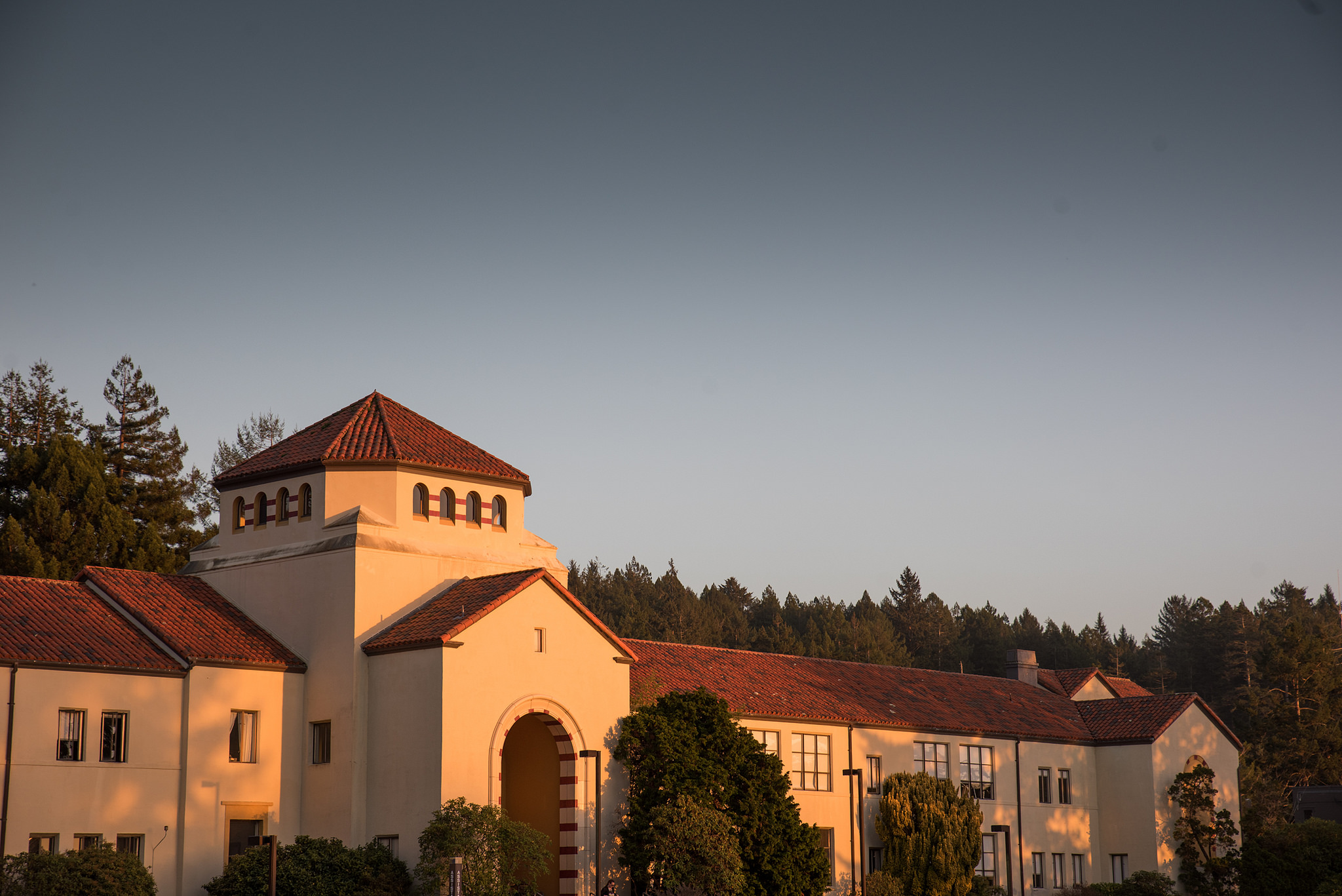 A sunset photo of Founders Hall on the Humboldt State University campus.